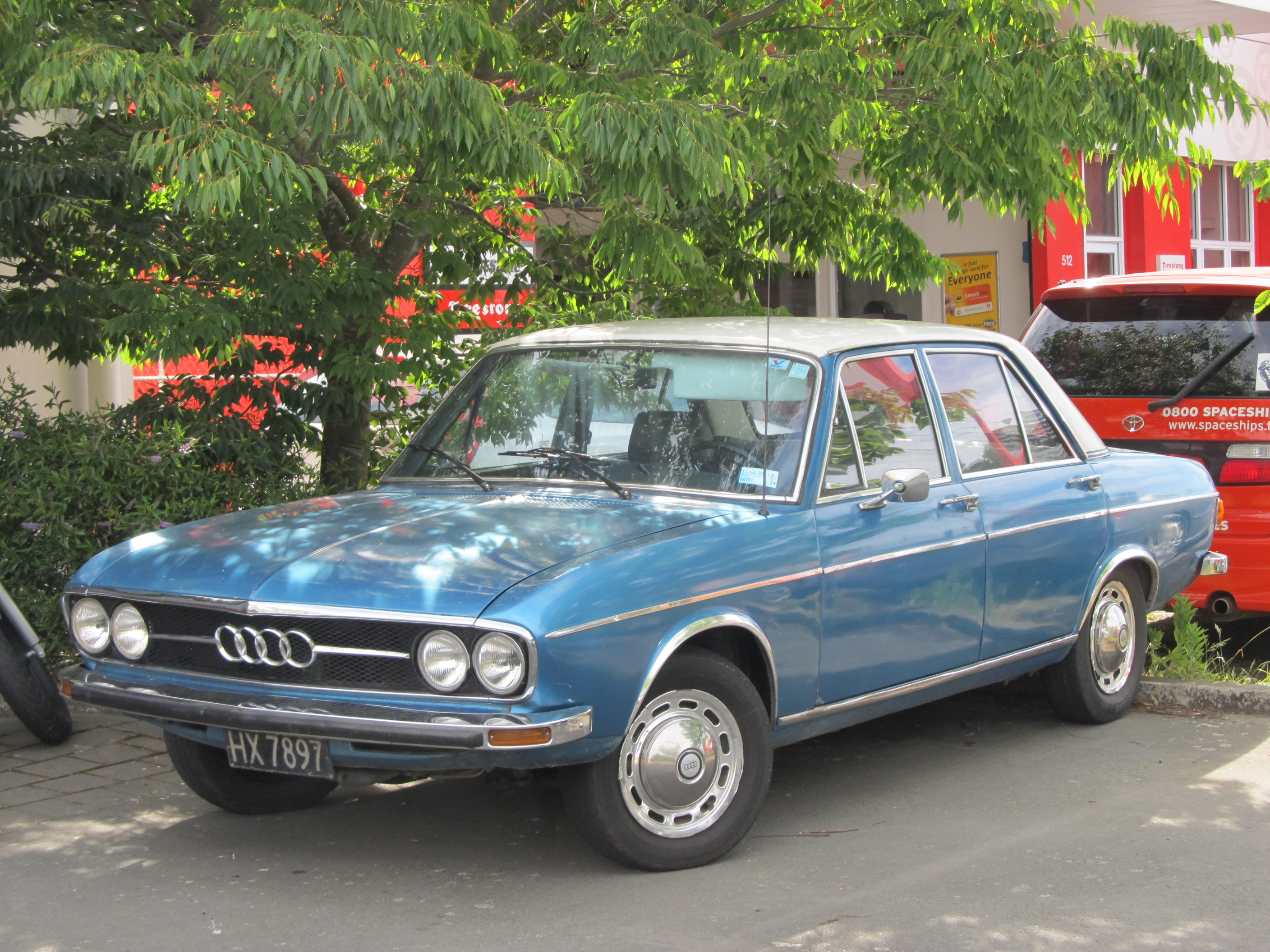 HX7897 One for Mini.Mad - guess what turned up in Christchurch? =) Anyway, this still caught me completely off guard, and is the only Audi 100 of this shape I've ever come across! It's a LHD import, presumably from Germany, that arrived here in 1976.